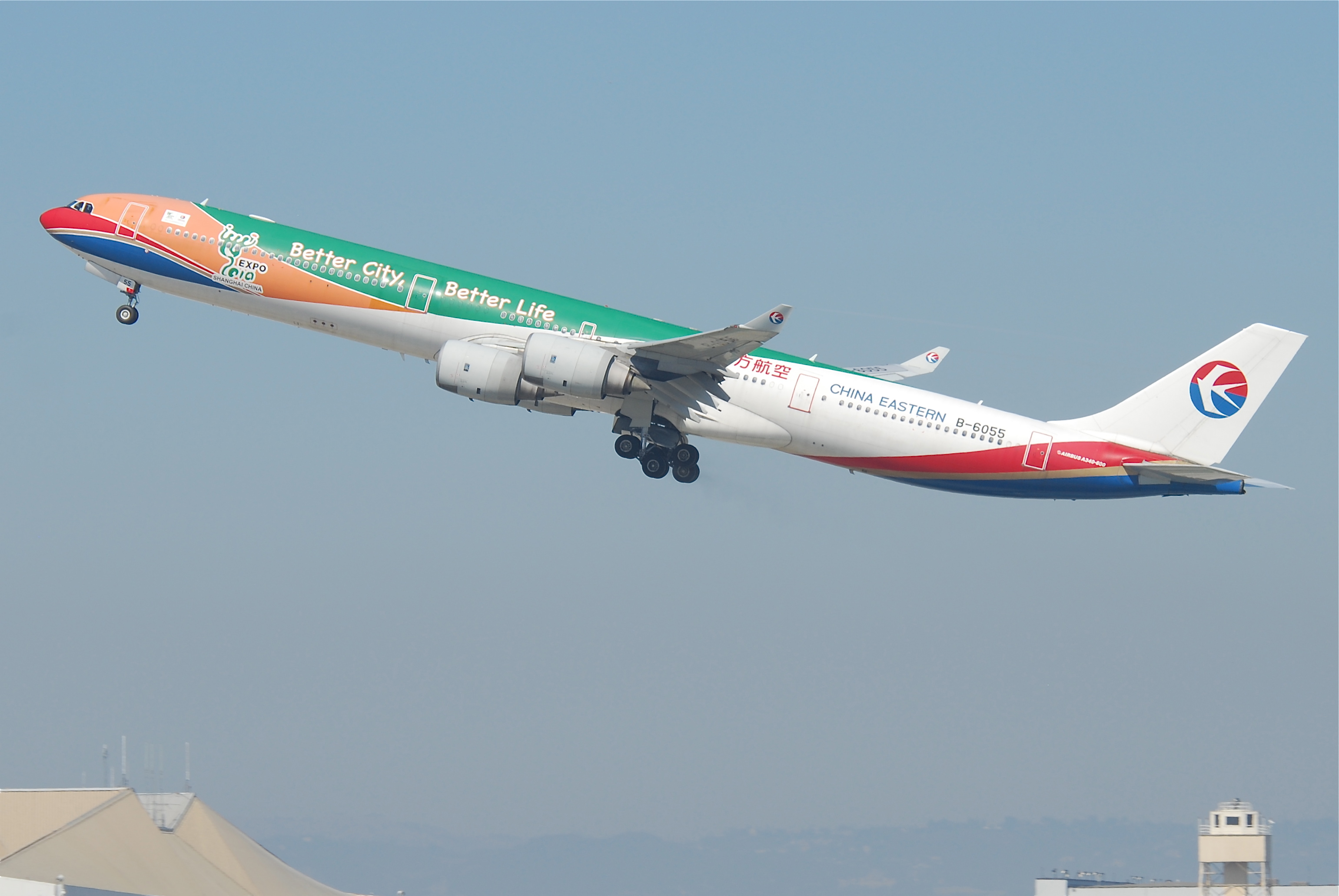 China Eastern Airlines Airbus A340-600; B-6055@LAX;11.10.2011/623gk